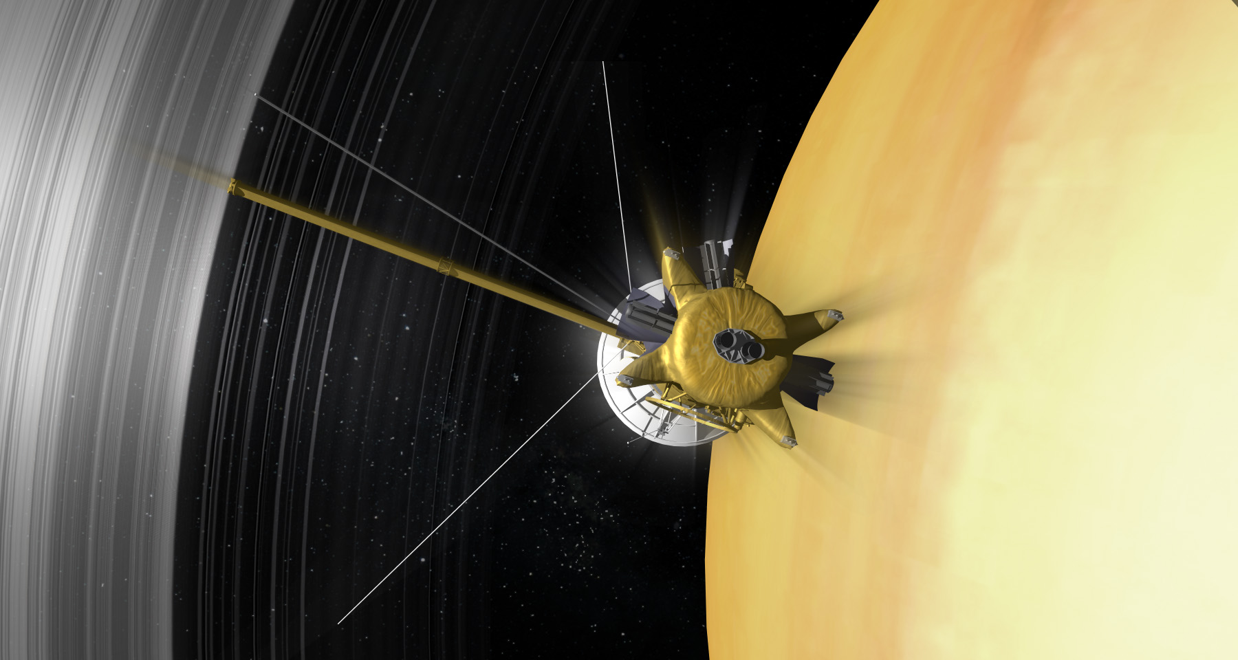 Artist's concept of Cassini orbiter diving between Saturn's inntermost rings and cloud tops.